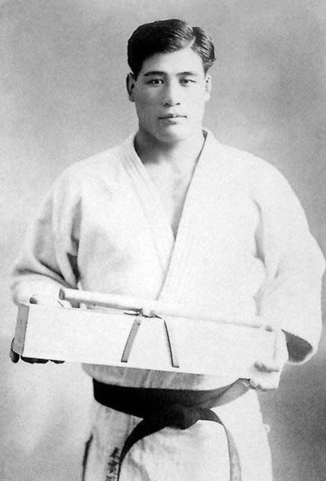 Japanese judoka Masahiko Kimura (木村政彦) in 1940 at age 24 with the Emperor's tanto (dagger) gift after winning the Ten-Ran Shiai, a tournament held in the presence of the emperor of Japan.